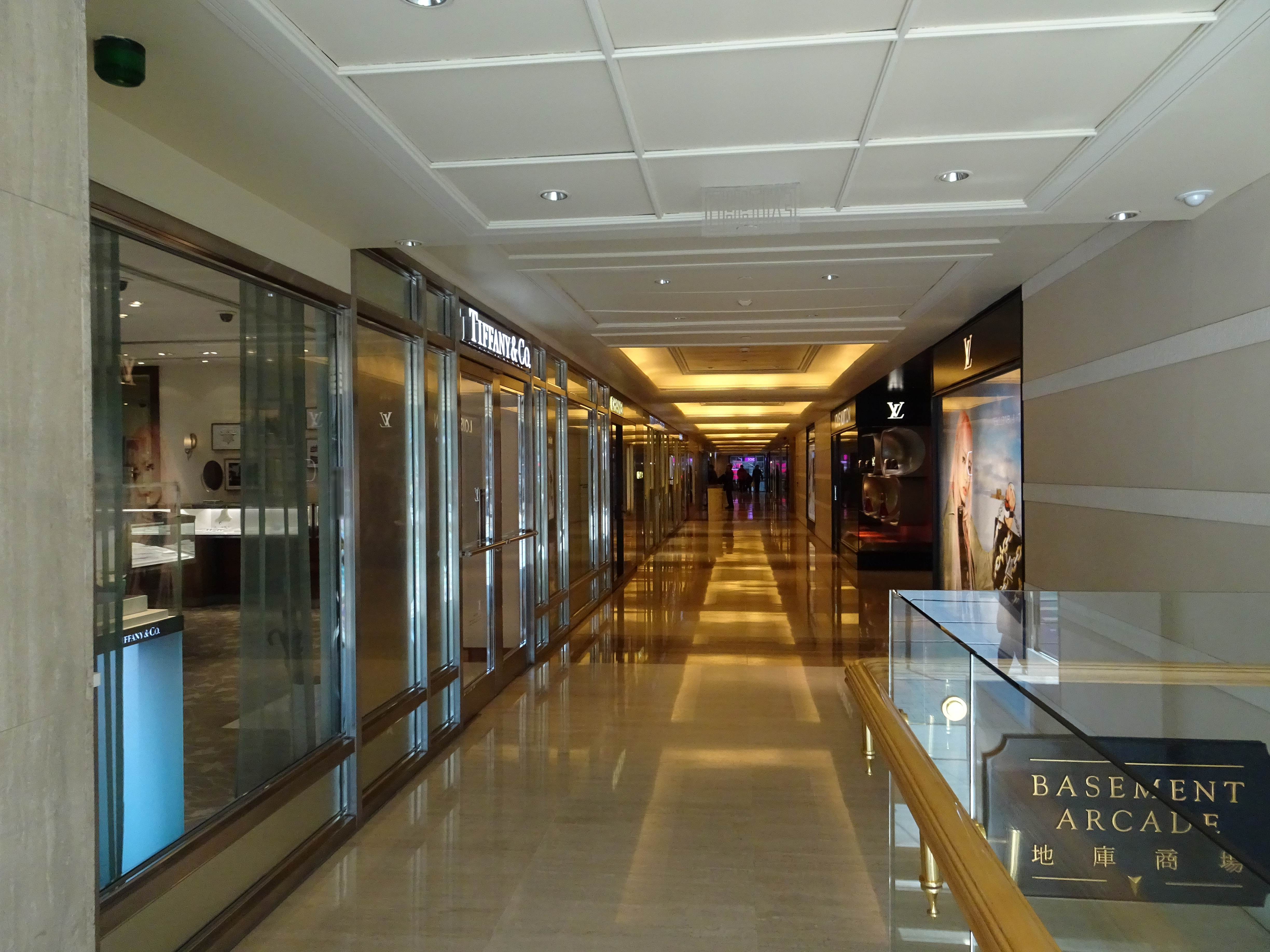 The Peninsula hotel in Tsim Sha Tsui, Hong Kong.